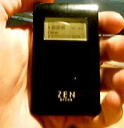 My Creative Zen Neeon-alittle scratched